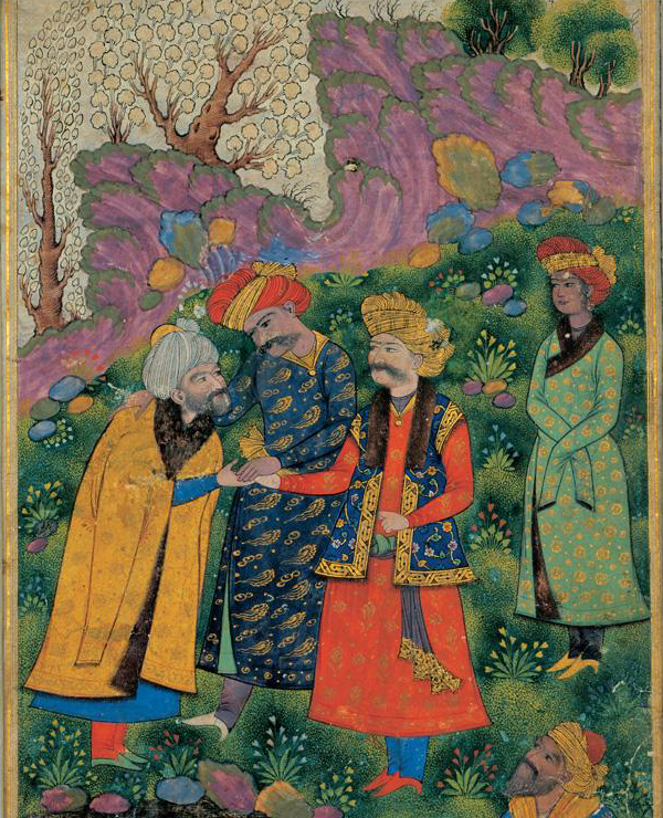 Mahmoud & Ayaz, and Shah Abbas. The Sultan (in red robe) is to the right, shaking the hand of the sheykh, with Ayaz (in green robe) standing behind him. The figure to his right is Shah Abbas I who reigned about 600 years later.